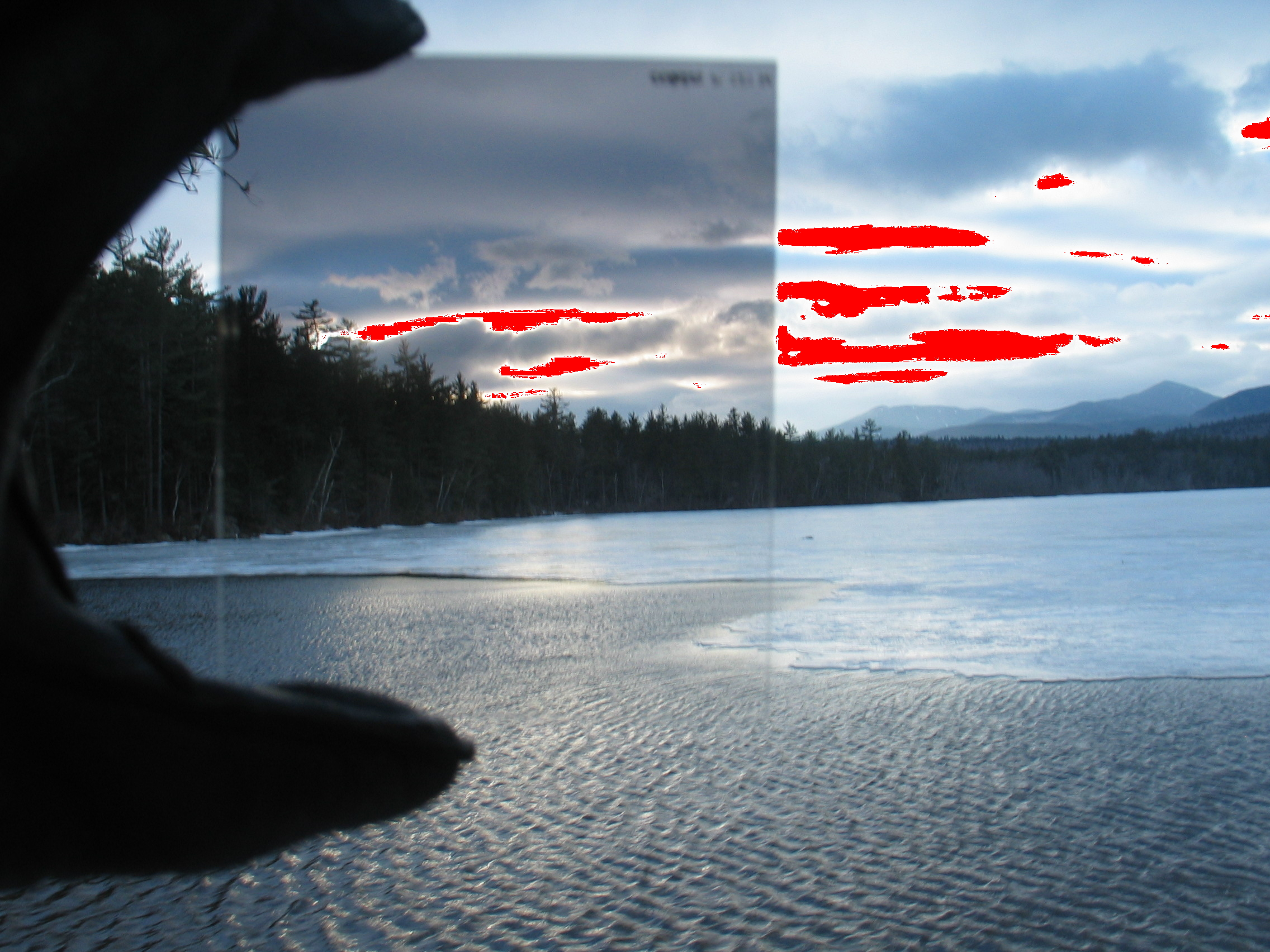 Based on Image:GND_demo.jpg, marking white pixels in that image as red. This shows that data is lost by not using a GND filter.